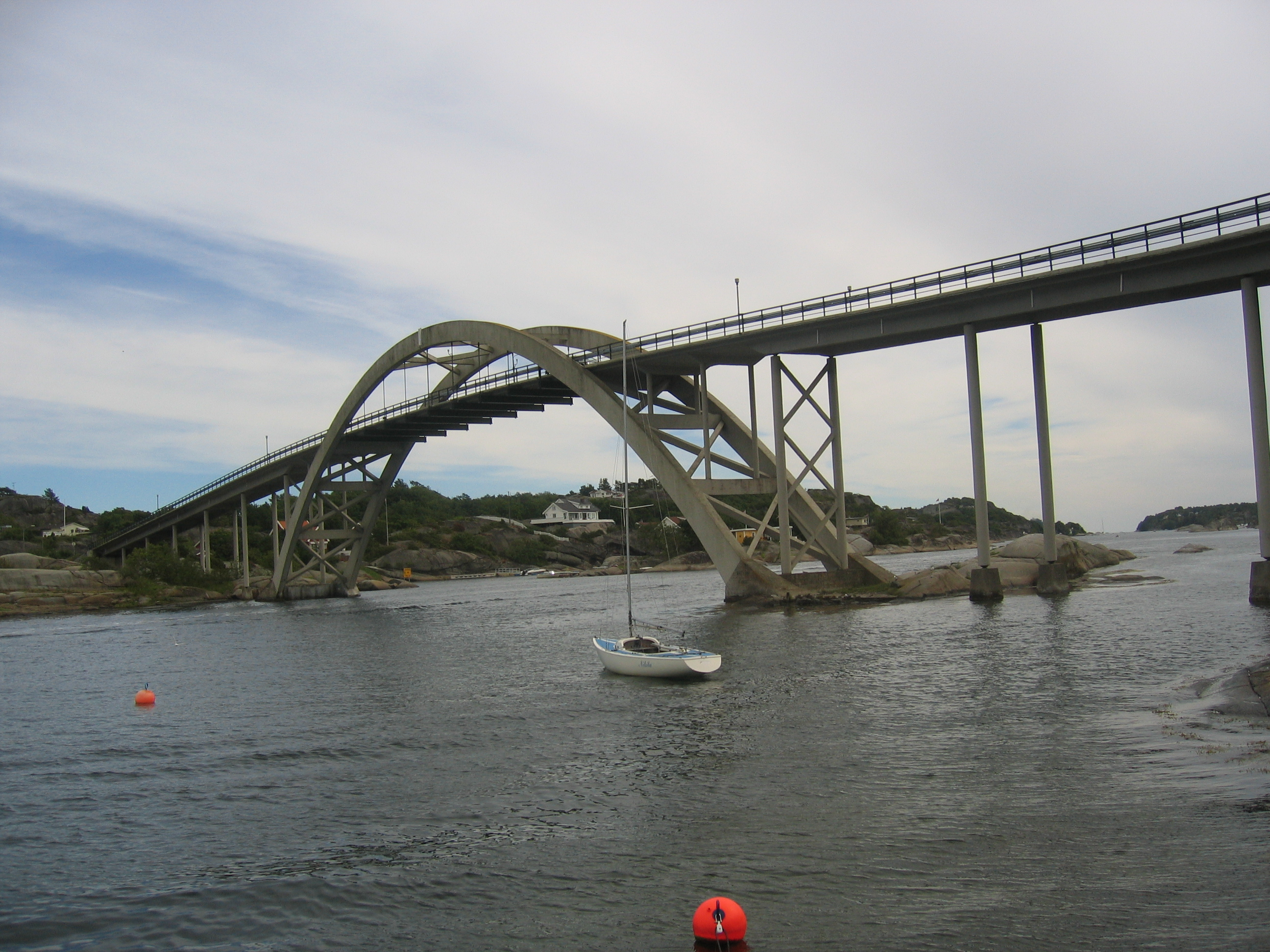 Bridge over Røssesundet, Tjøme muncipality in county Vestfold.